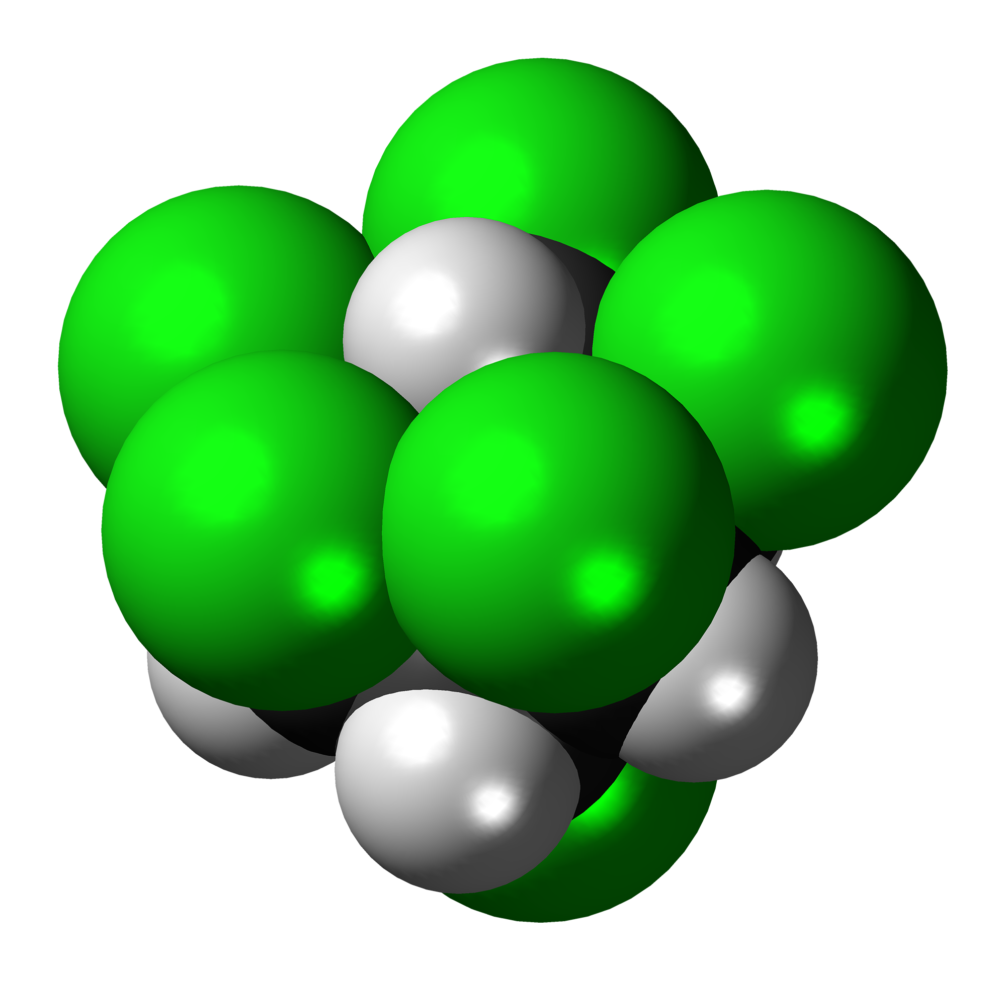 Ball-and-stick model of the gamma-hexachlorocyclohexane molecule, also known as lindane, an insecticide. This image shows the chair conformation. Color code: Carbon, C: black Hydrogen, H: white Chlorine, Cl: green